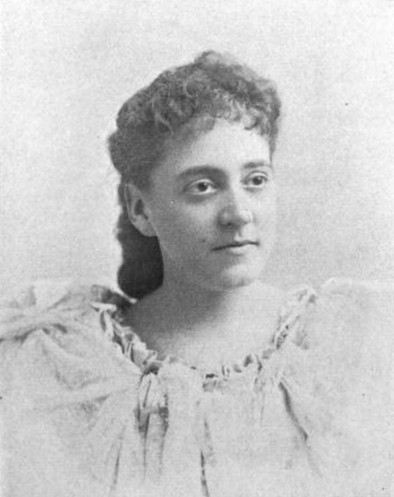 Florence Huberwald, from "Some Notables of New Orleans", an 1896 publication.